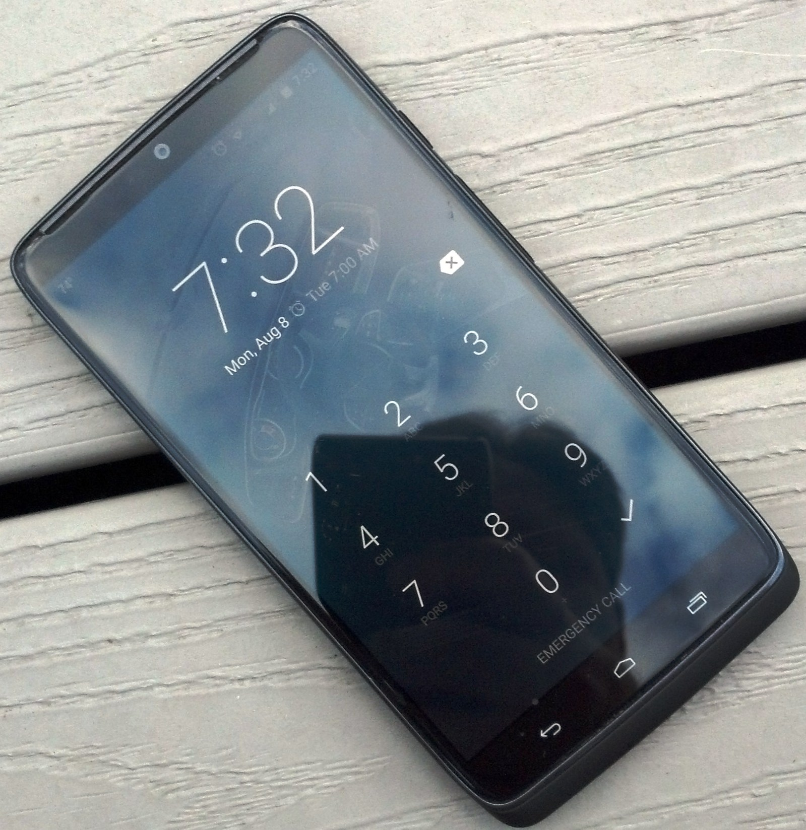 Picture of a Motorola Droid Turbo